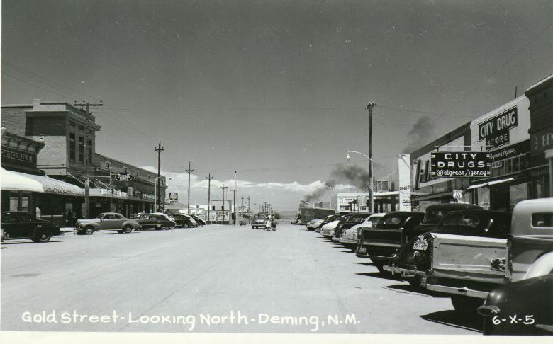 From our family album of New Mexico photos, Deming, NM